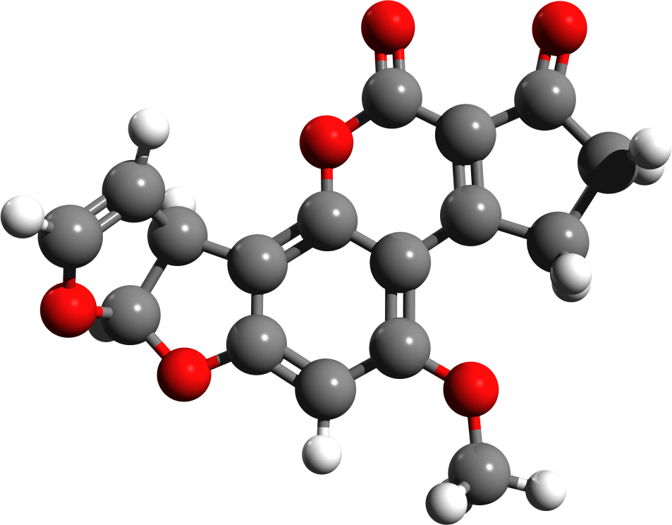 Aflatoxin B1 structure